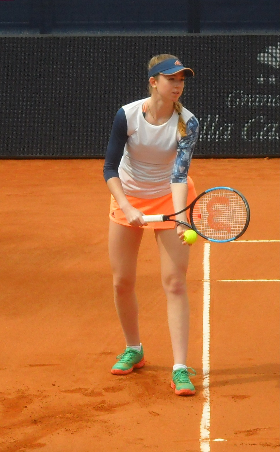 Simona Waltert durante un match